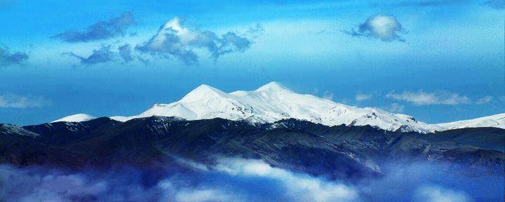 avrin mountain location in khoy city in west azerbaijan province in iran country.avrin mountain mountain location 40 kilometer in north khoy city,with 3650 high.after ararat mountain ,second highest mountain in regional.